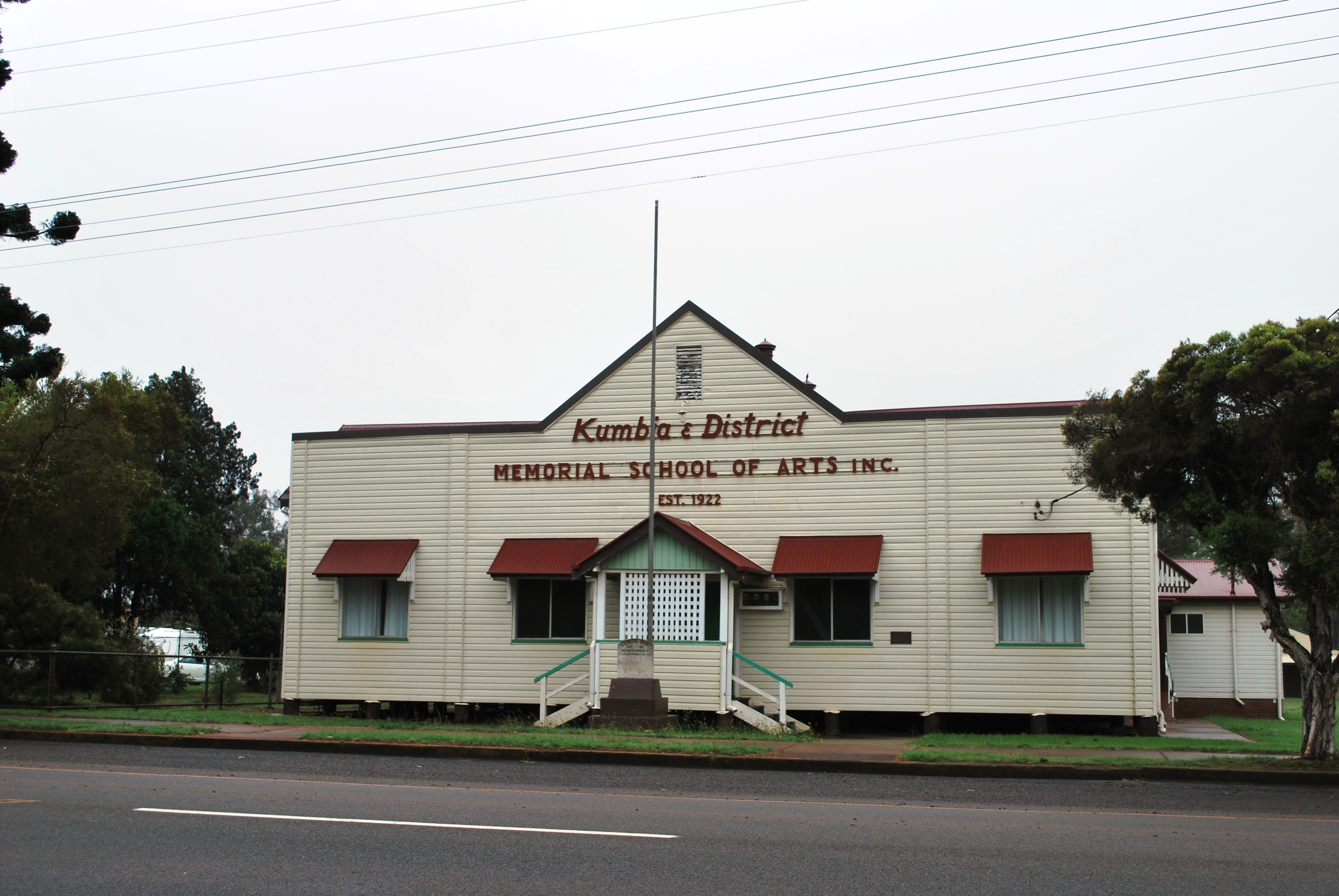 Memorial School of Arts at Kumbia, Queensland